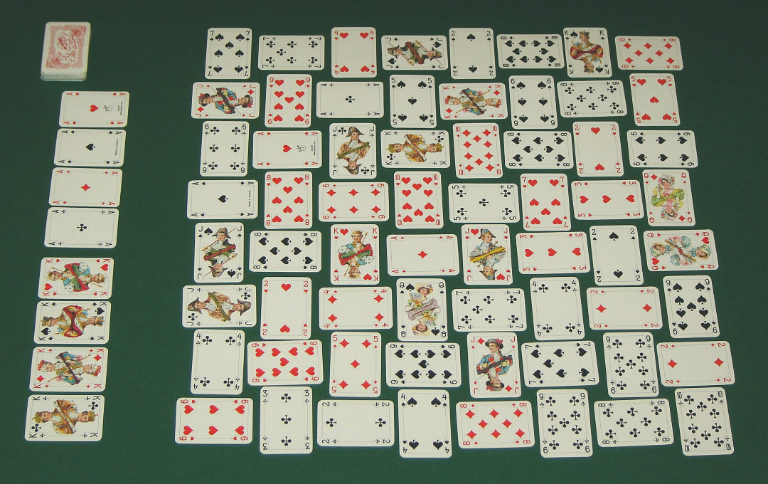 Initial (shuffled) layout of Carpet patience (solitaire).